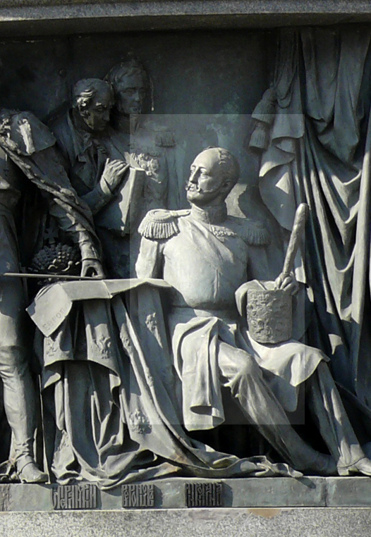 Nicholas I of Russia on the Monument «Millennium of Russia» in Veliky Novgorod